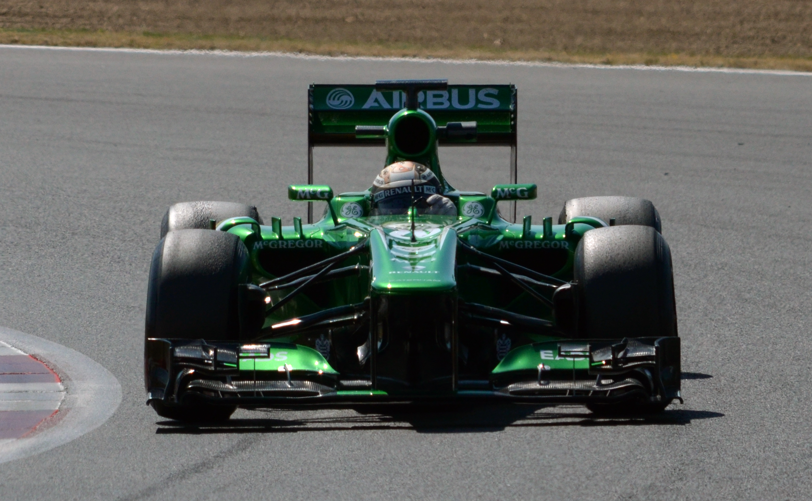 Giedo van der Garde driving the Caterham CT03 at the Young Drivers' Test at Silverstone.